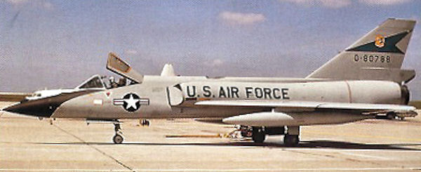 319th Fighter-Interceptor Squadron F-106 58-0788 at Malmstrom AFB, Montana, 1971. Note, the A/C carries the tail markings of the 71st FIS, from which it was transferred in July 1971 with the 319th FIS squadron emblem overlaid on top.